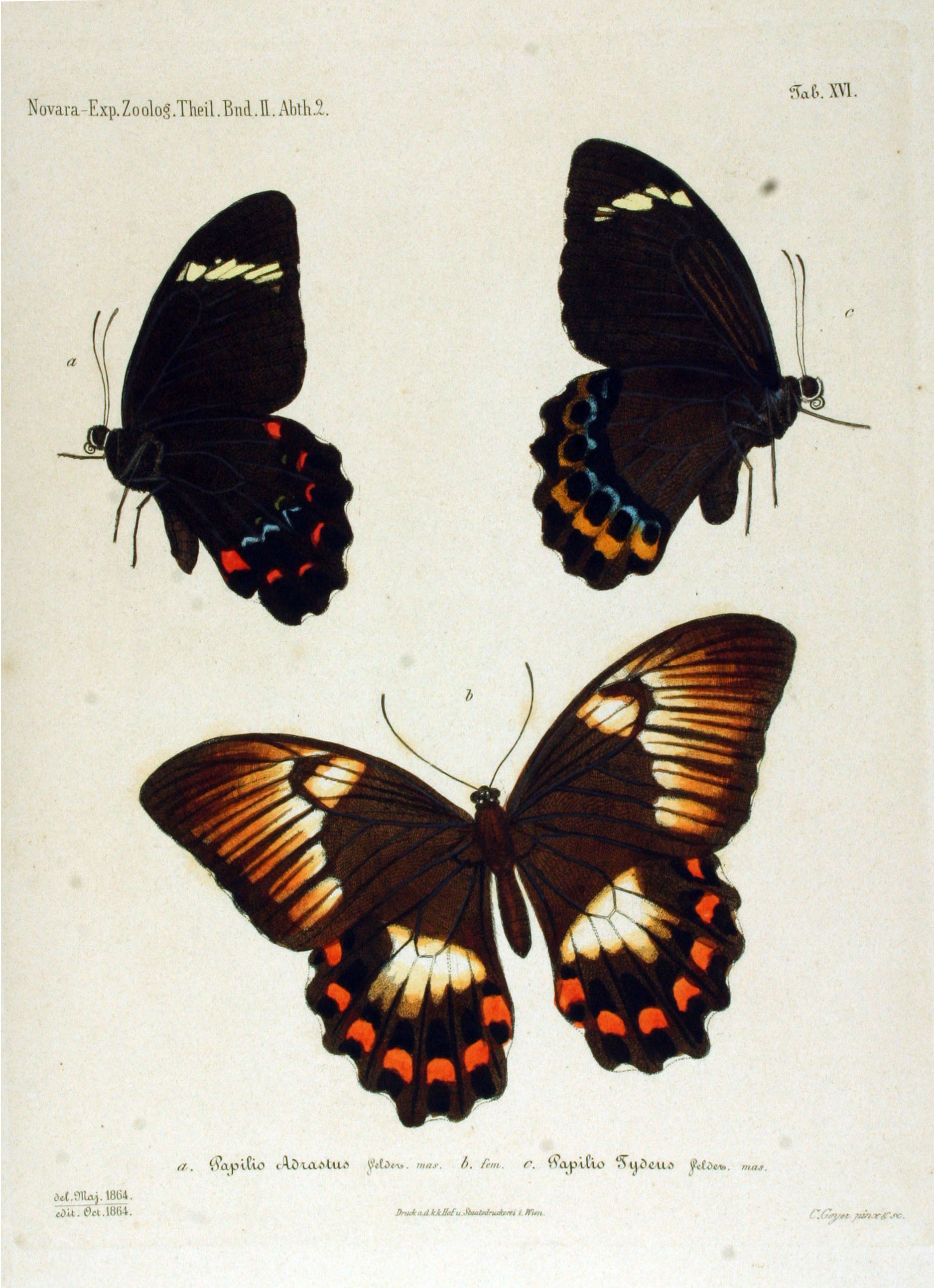 Reise der Österreichischen Fregatte Novara um die Erde in den Jahren 1857, 1858, 1859 unter den Befehlen des Commodore B. von Wüllerstorf-Urbair. (1864) Zoologischer Theil. 2. Band. Zweite Abteilung: Lepidoptera. Atlas.Tafel XVI. Papilio adrastus (Synonym of Papilio aegeus Donovan, 1805); Papilio tydeus